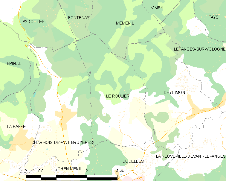 Map of French municipality Le Roulier